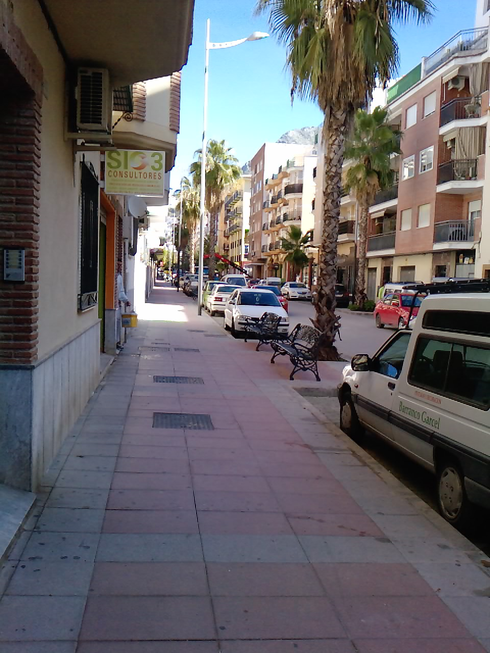 Avenue San Amador of Martos (Jaén), Spain.